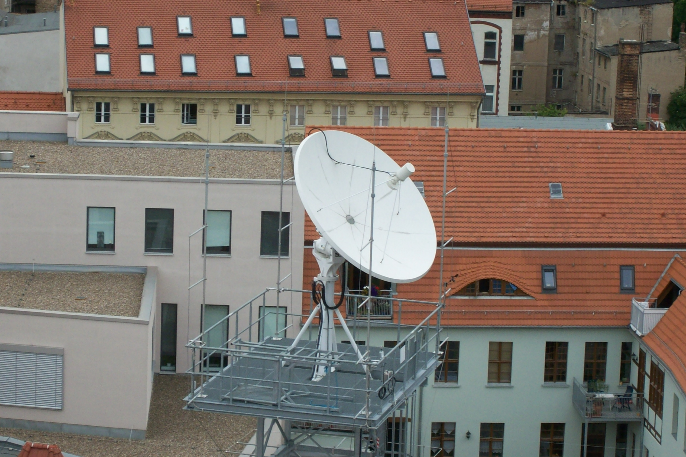 RapidEye Antenna, Location Germany 14776 Brandenburg an der Havel Molkenmarkt 30